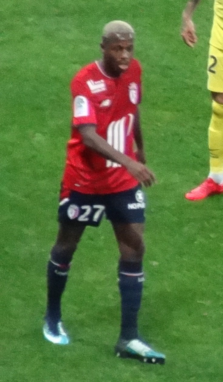 Hamza Mendyl (LOSC)